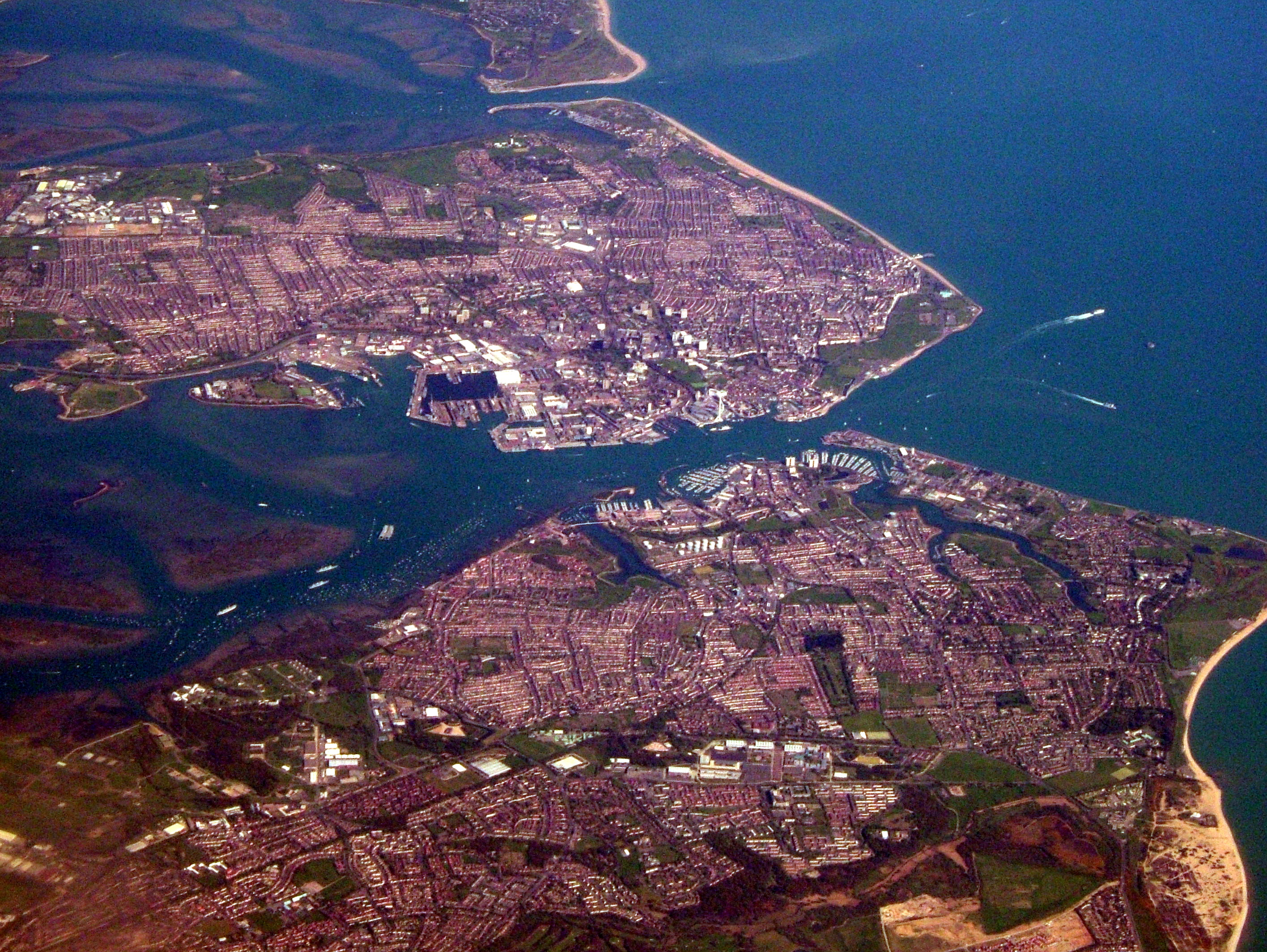 Aerial view of Portsmouth